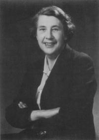 Portrait photograph of Irish historian Professor Constantia Elizabeth Maxwell (1886-1962).